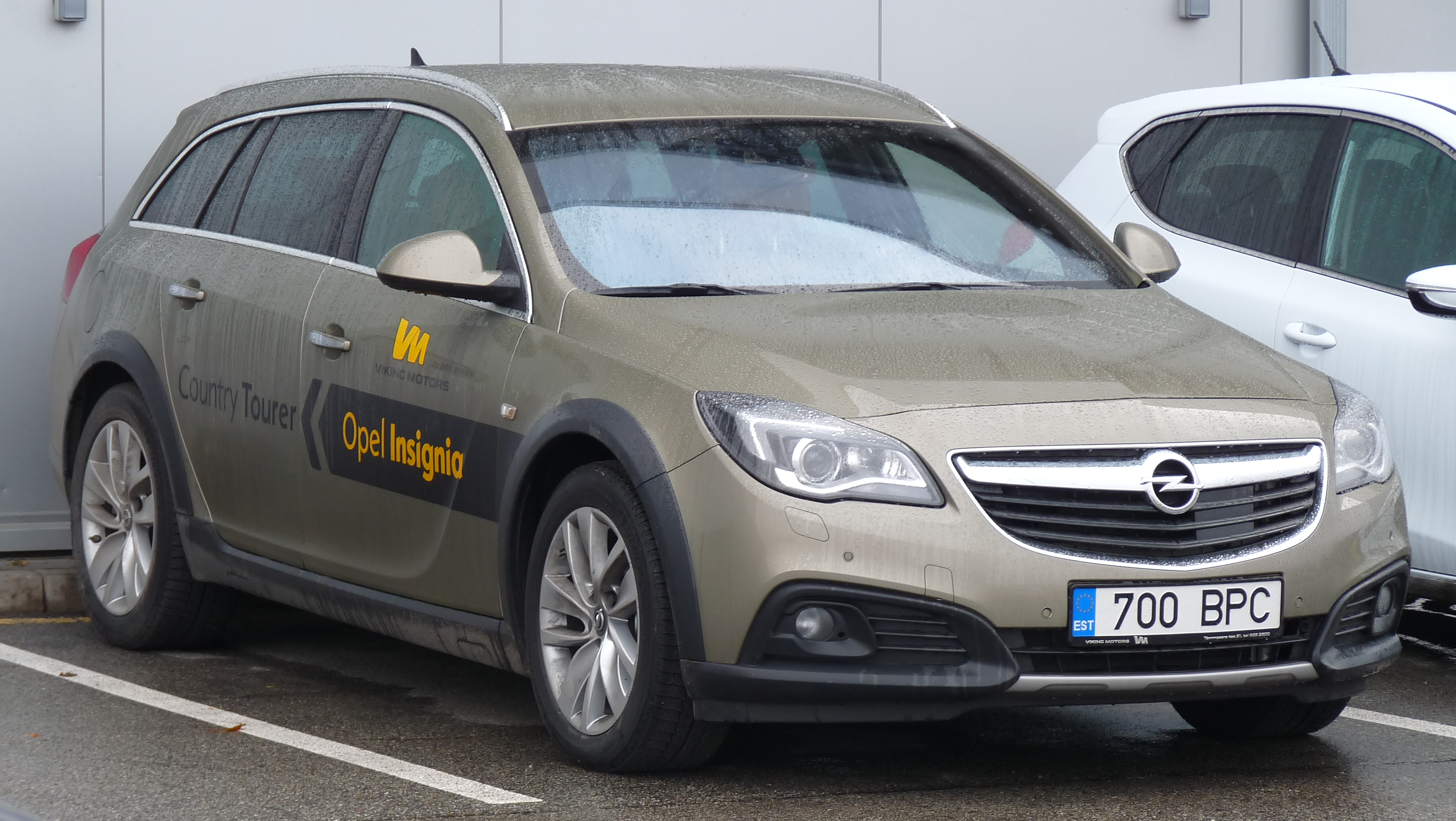 Opel automobile in Tallinn, Estonia